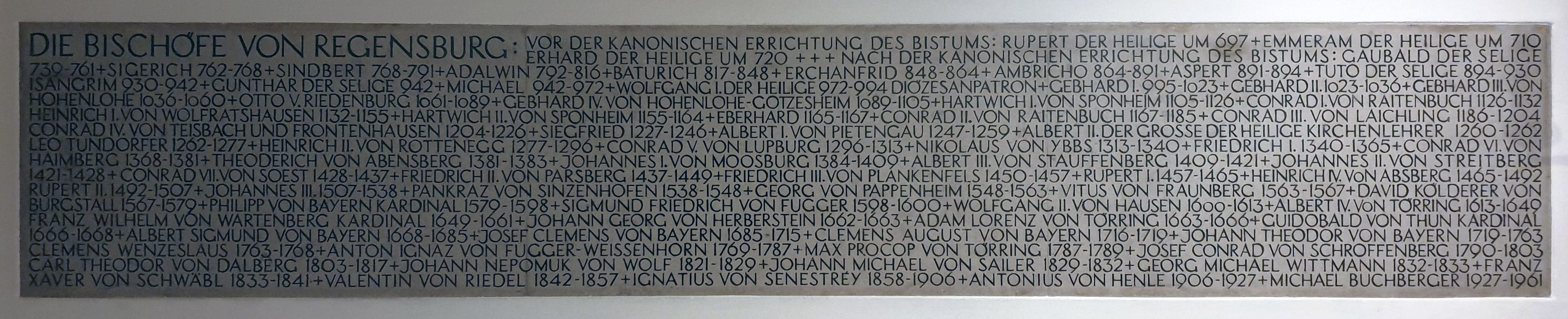 Memorial plaque, Regensburger Bischöfe, Domplatz 1, Regensburg, Germany